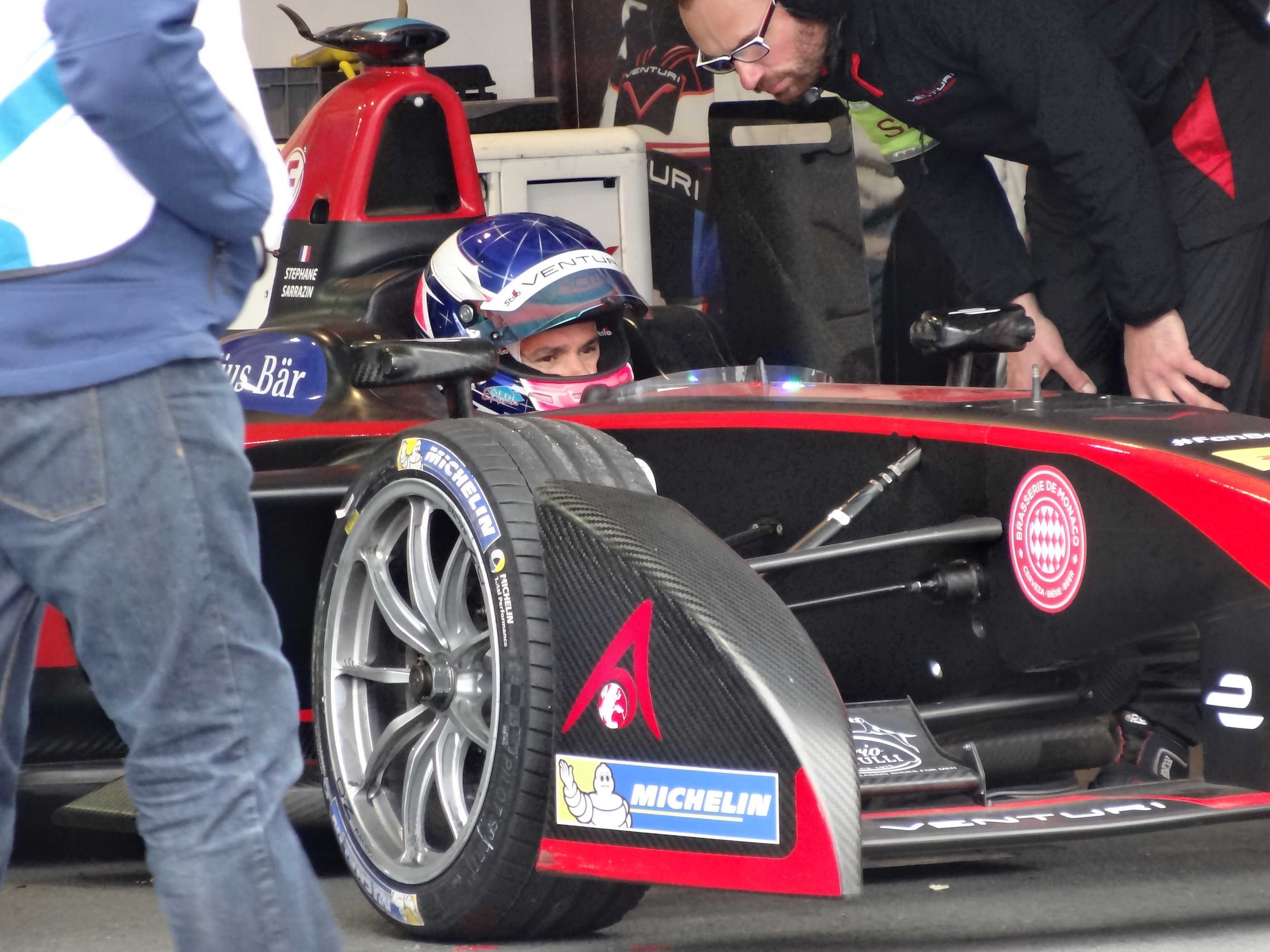 Stéphane Sarrazin Formula E